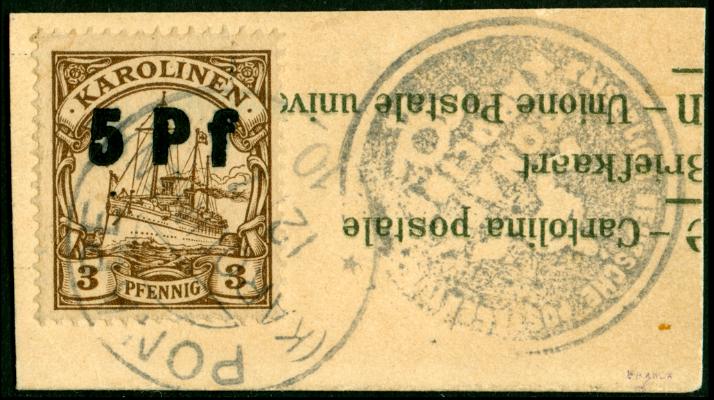 Overprinted in Ponape postage stamp of the German Caroline Islands, SMY Hohenzollern issue, 5 pfennigs on 3 pfennigs, 1910